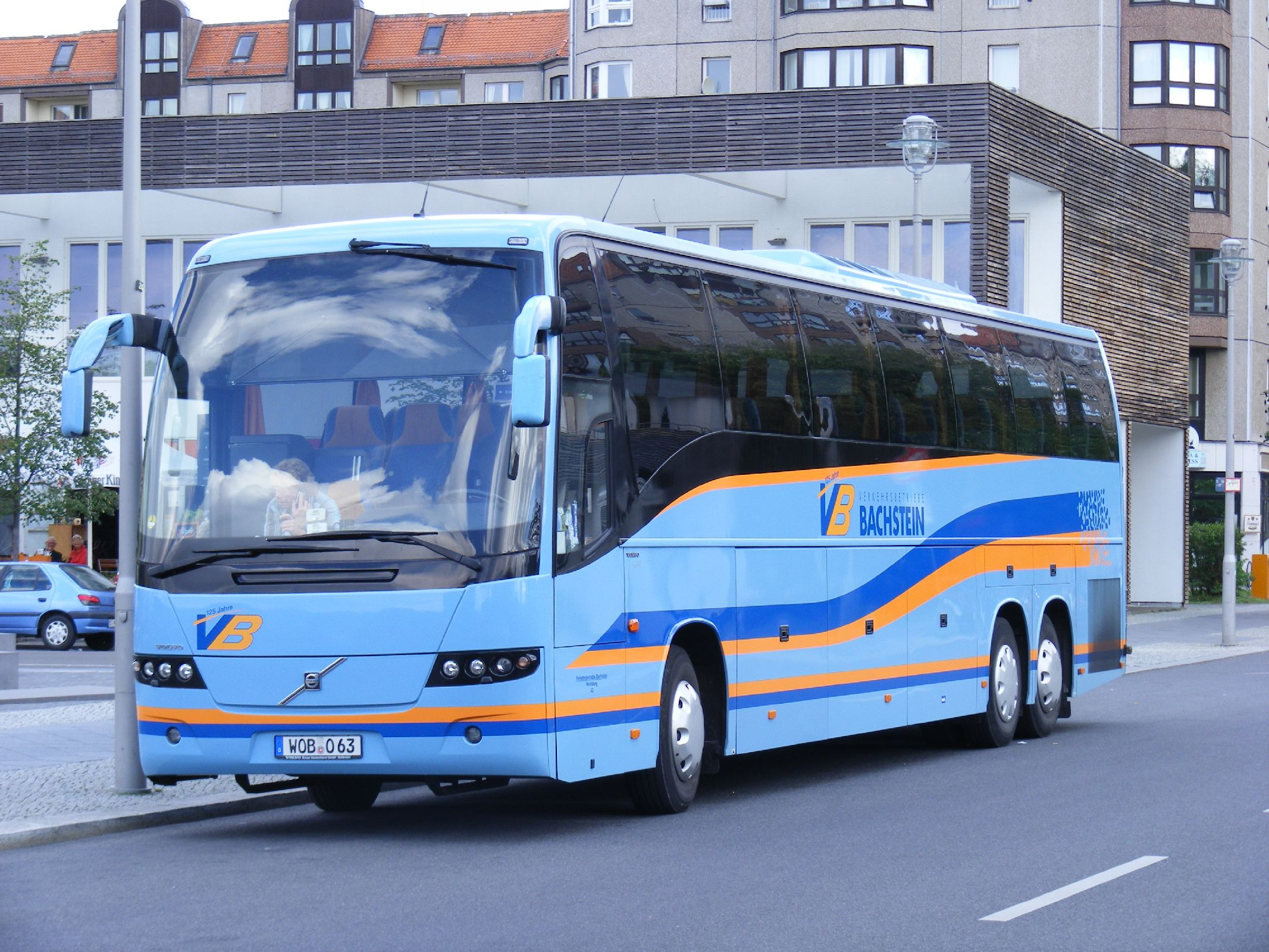 WOB-O 63 seems to be showing WOB 063 but the Zero is square in Germany. The logo shows the firm to be 125 years old, a bit like Chambers of Bures,England,founded 1877, although slightly later than the latter in 1879 as the Centralverwaltung für Secundairbahnen Herrmann Bachstein to operated trams and trains, the last train running in 1978. Click on Oldtimer gallery here Operating centres for bus and coaches are Celle, Hornberg (where the last Bachstein train ran) Wolfsburg and Fichtelgebirge in Bavaria.